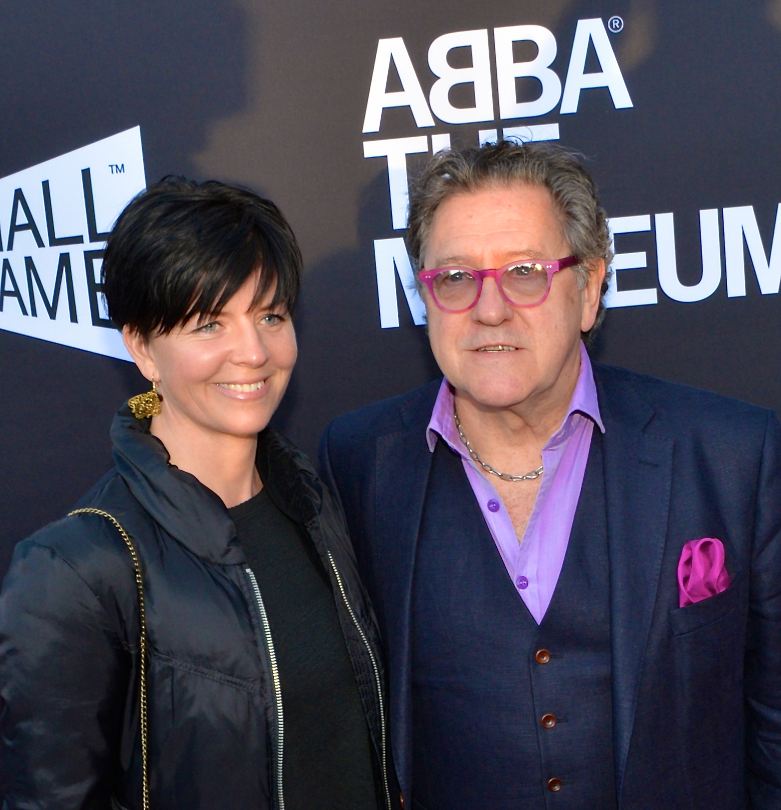 Anne-Charlotte and Tommy Körberg during the opening of ABBA: The Museum May 6, 2013.